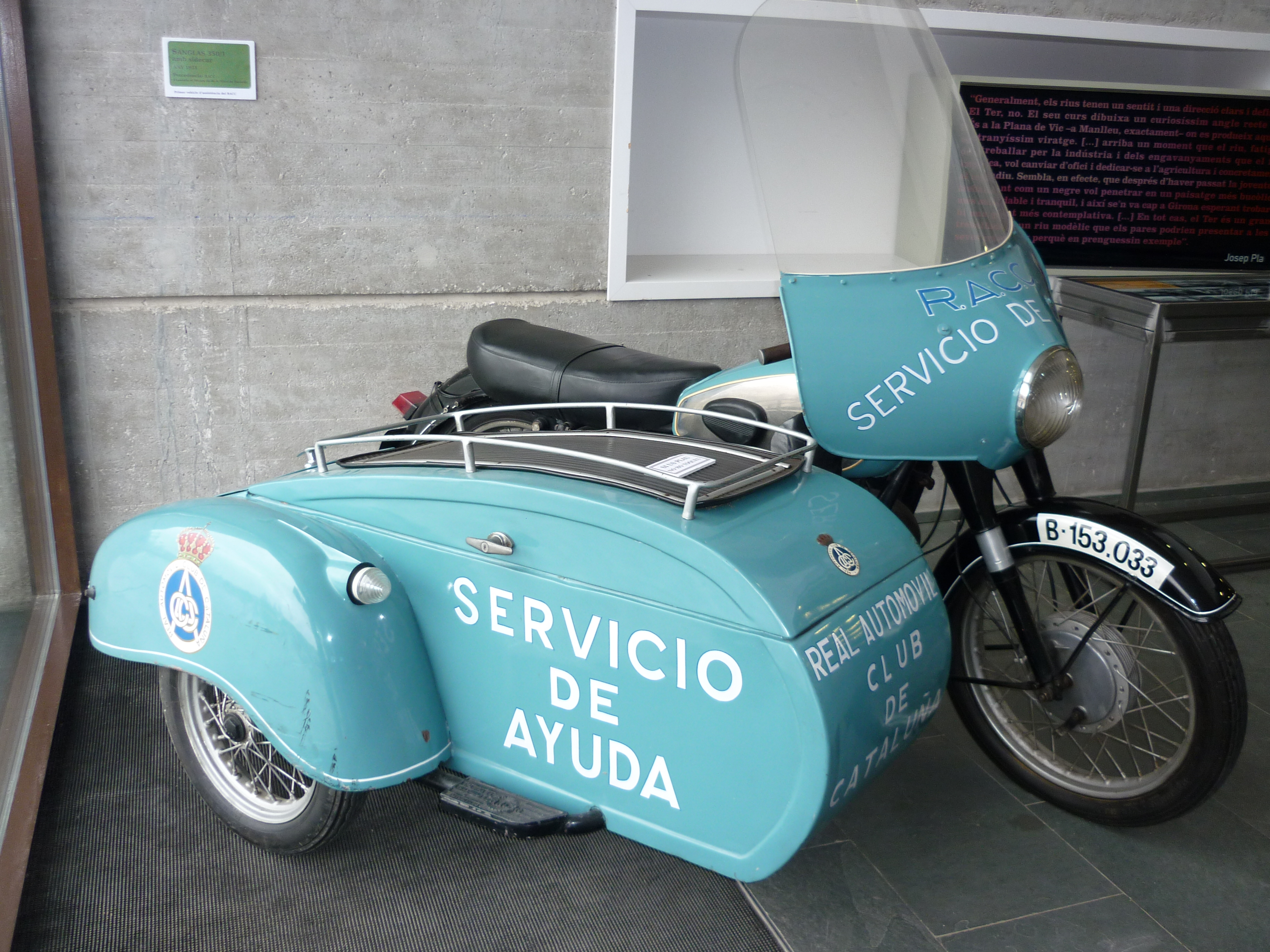 Sanglas 350/4 (347 cc) with sidecar from 1957, used by RACC (Reial Automòbil Club de Catalunya) during 50's. The filename is wrong.